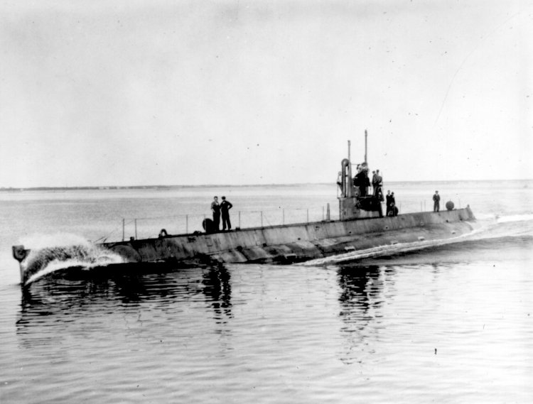 A photograph of the USS M-1 (SS-47). US National Archives photo # 19-N-12791, a US Navy Bureau of Ships photo now in the collections of the US National Archives. The digital version of the file was obtained from here. See the usage notice here.